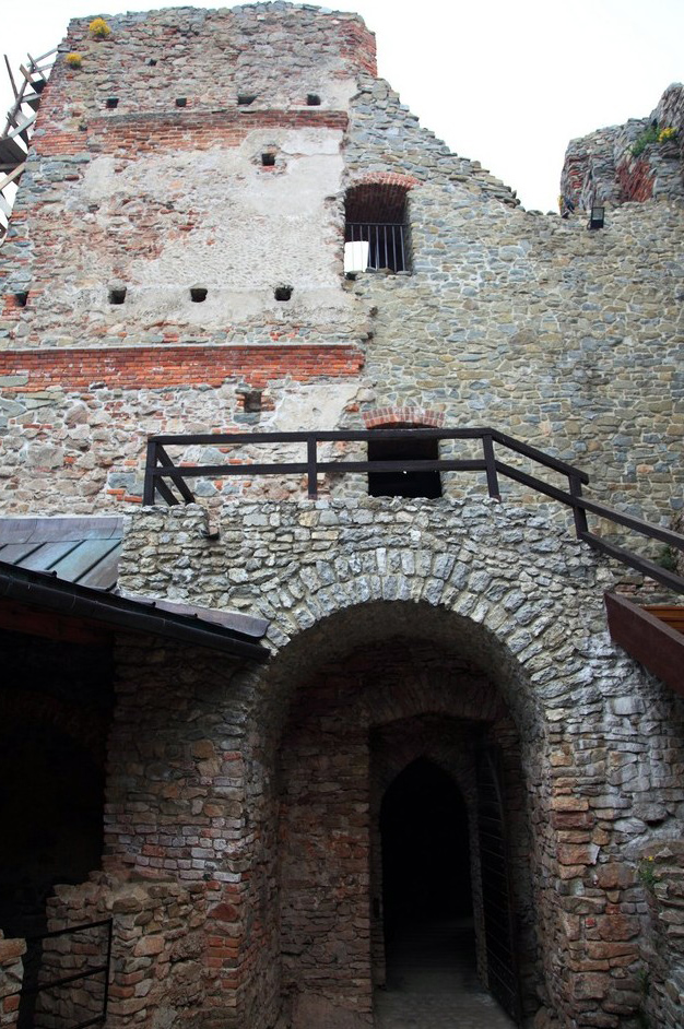 Czorsztyn Castle